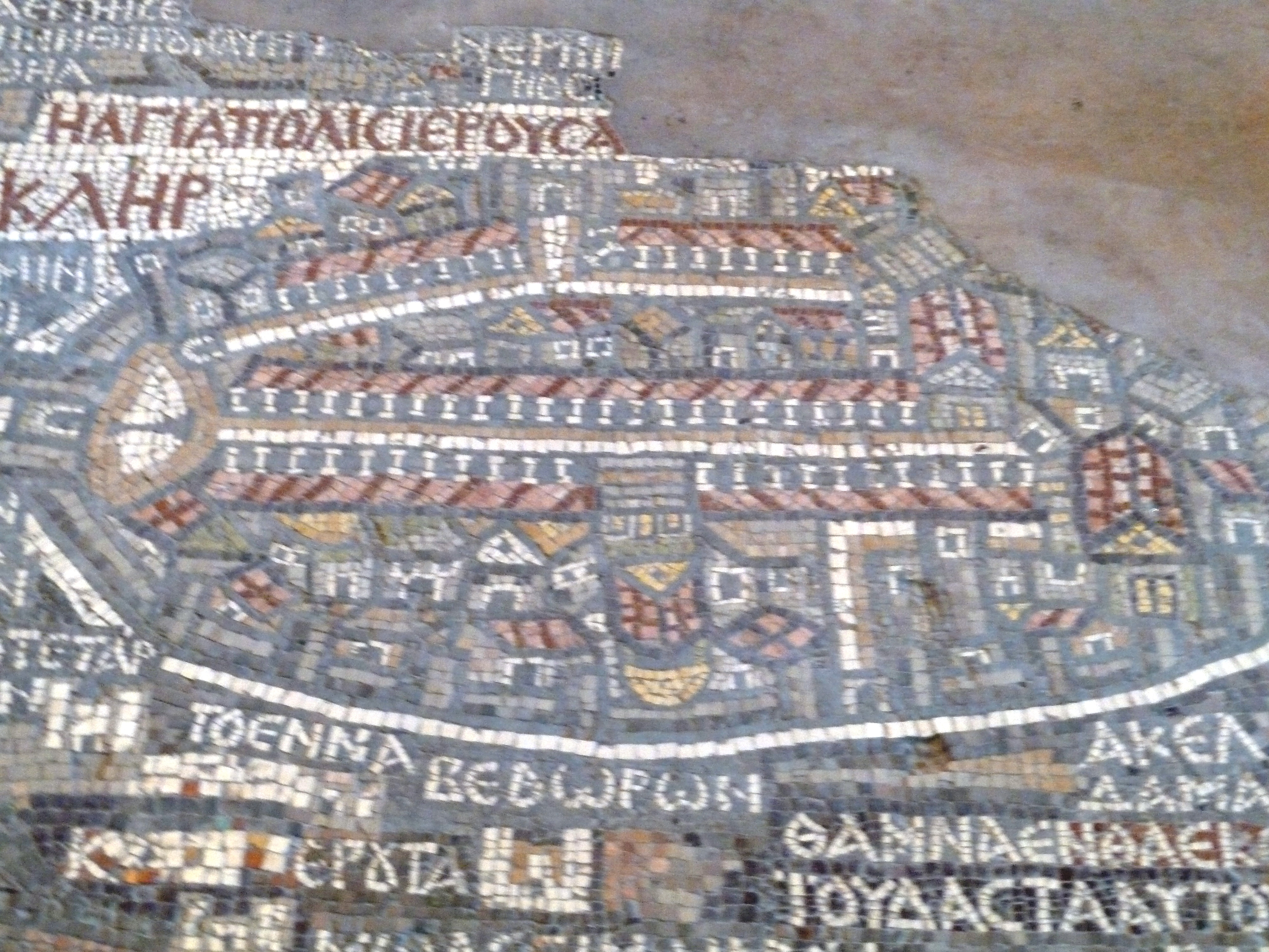 Byzantine floor mosaic map at St. George Church, Madaba, Jordan